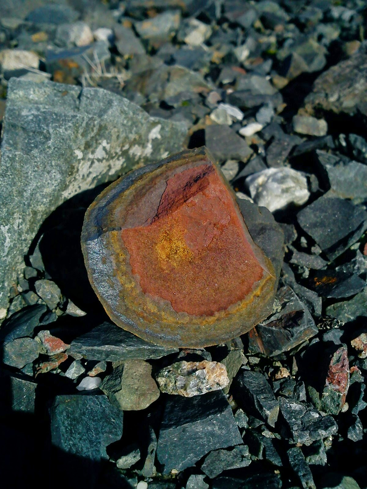 Limonite concretion found at spoil bank of former uranium mine, Mineshaft n.16, Háje, Příbram.